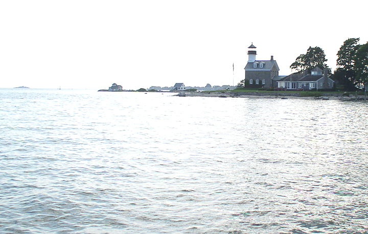 Morgan Point Lighthouse as seen from the water.